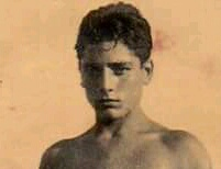 Aldo Monti, a Mexican actor, who was born in Italy (died in 2016). This photo was made in 1944, when he was 15 years old.